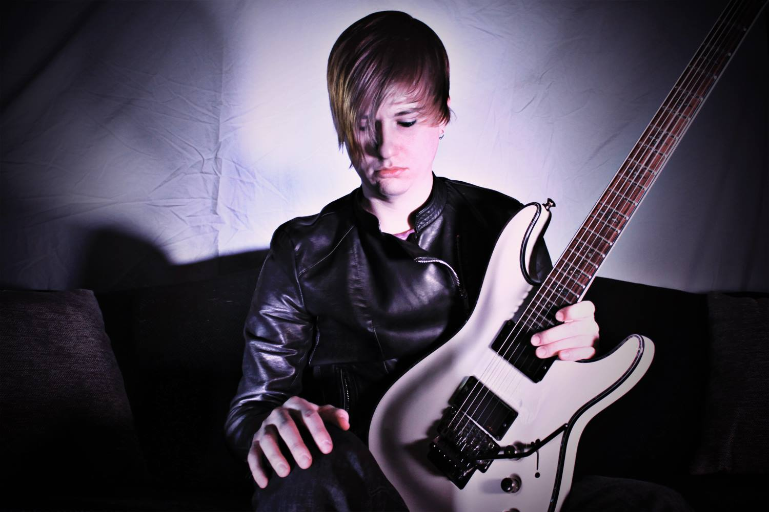 Official picture of the musician Lazzo. Other information This file was uploaded by Ken Lasso/Lazzo.